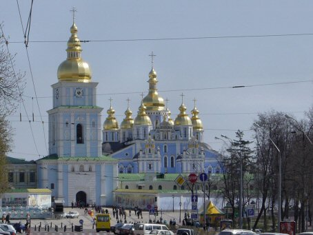 Michael monastery in Kiev, Ukraine.